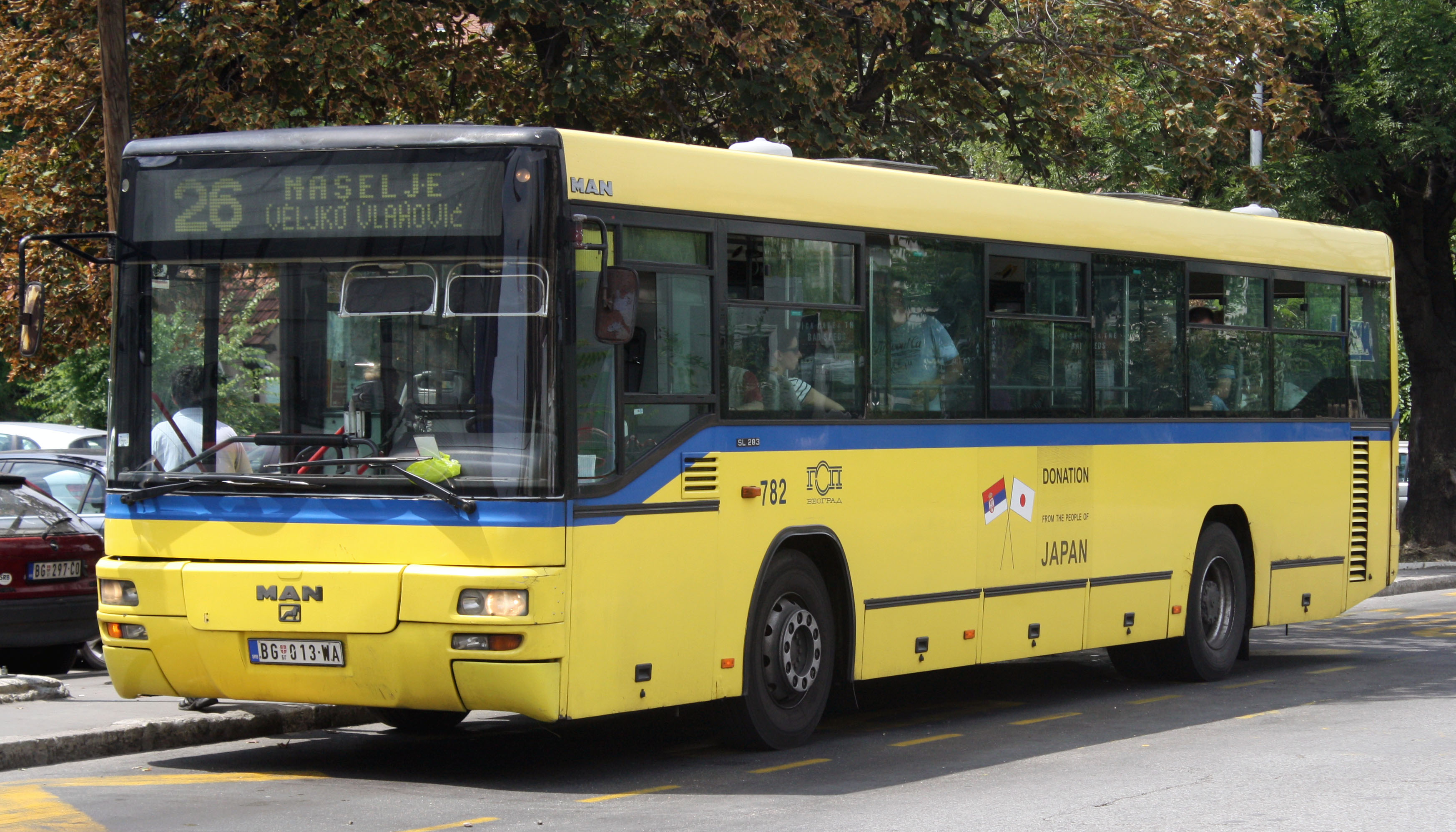 MAN SL 283 city bus of GSP Beograd on line 26.